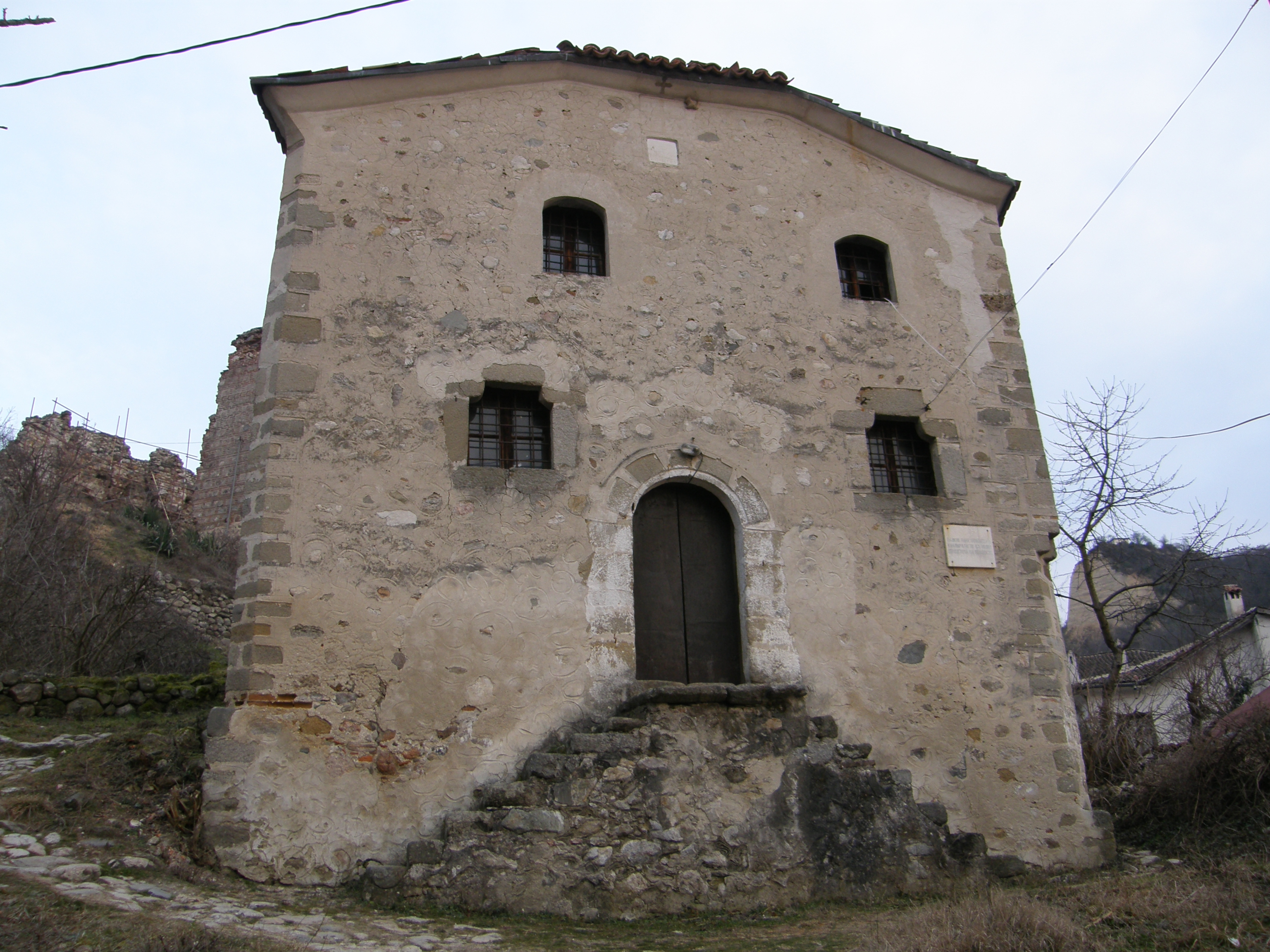 The basilica of Sveti Antonii (Saint Anthony the Great) built in the 19th century... Front side...